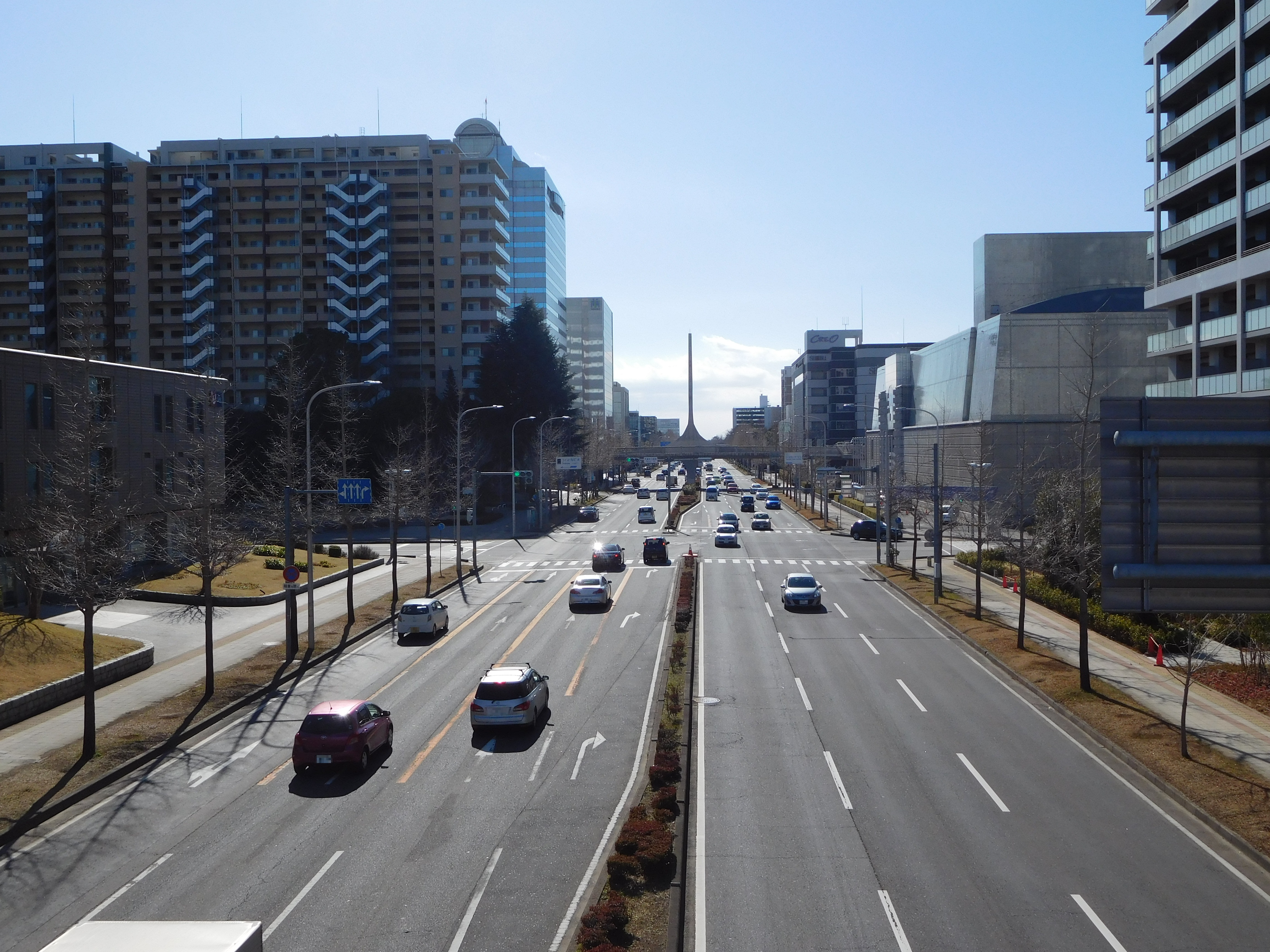 This is a landscape of Central Tsukuba, Ibaraki, Japan.